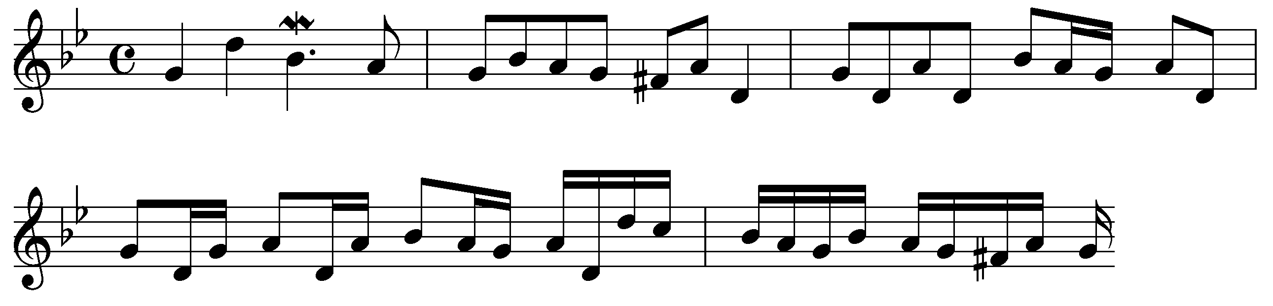 Incipit of Fugue in G minor, BWV 578 by Johann Sebastian Bach.